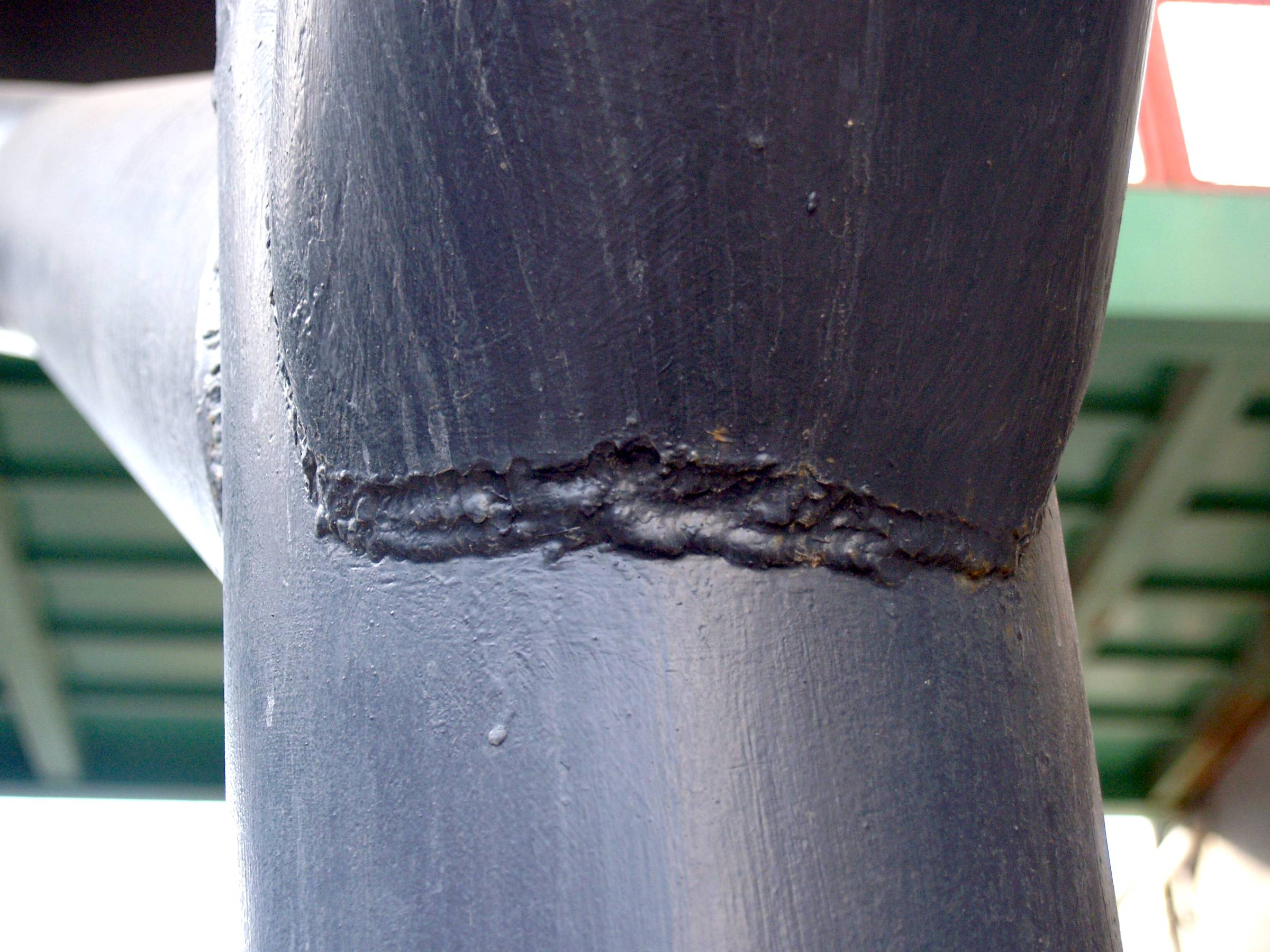 Poor quality weld of pipes